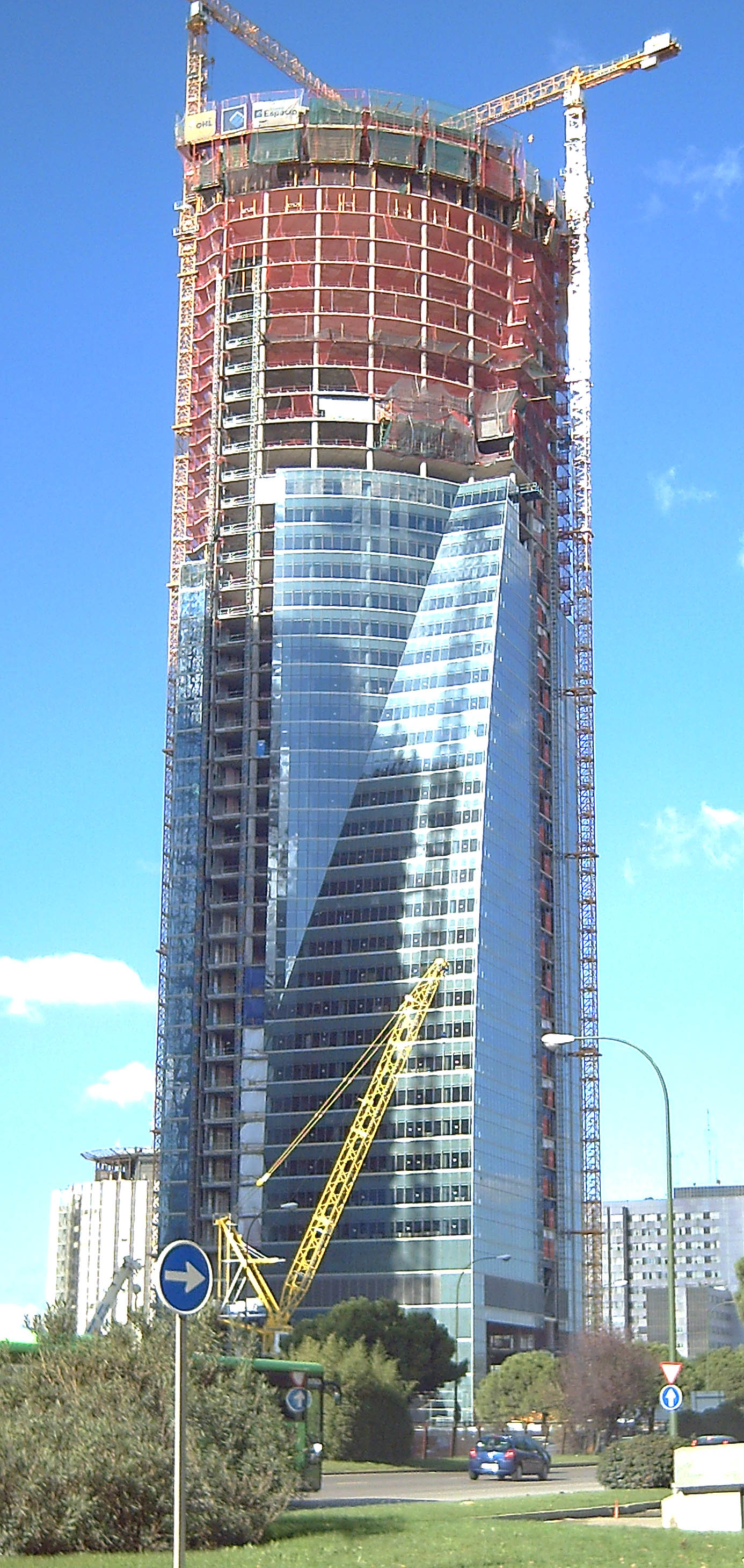 Torre Espacio (CTBA, Madrid, Spain, 2004–2008). Architect: Henry N. Cobb.